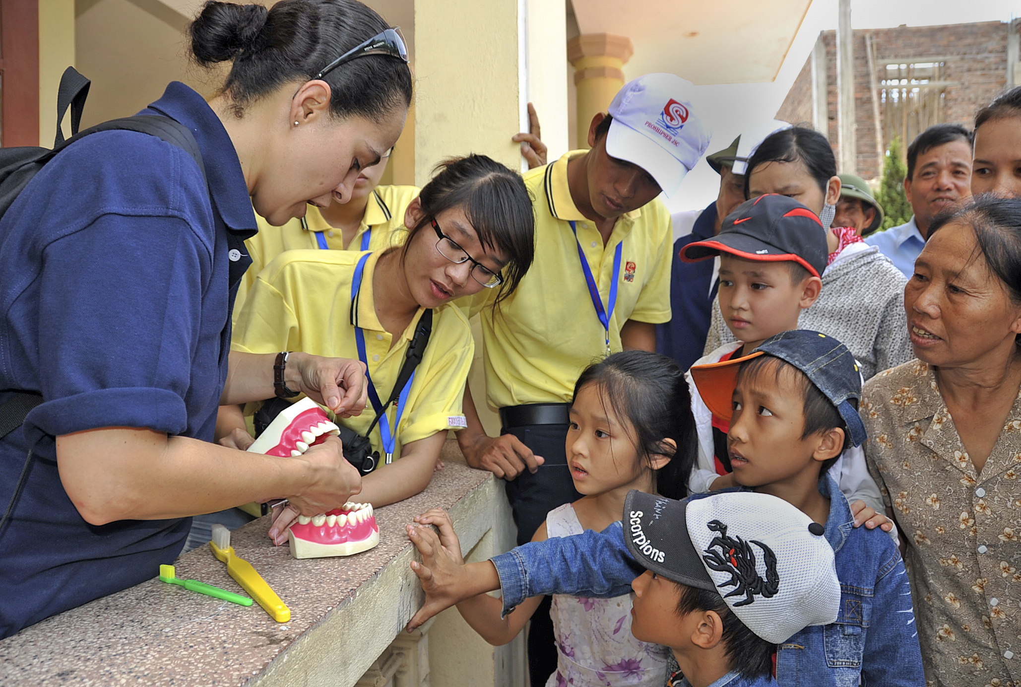 VINH, VIETNAM (July 13, 2012) Hospital Corpsman 3rd Class Maria Aluma-Lopez gives instruction on oral hygiene to children and adults at a medical civic action project at Nguyen Thi Minh Khai. Numerous civil action projects will be conducted during Pacific Partnership 2012 over the course of the two-week mission in Vietnam. Pacific Partnership is the largest annual humanitarian and civic action mission in the Asian-Pacific region. Military and civilian professionals from 10 other nations and 14 international and local non-government organizations have partnered to execute tailored humanitarian assistance projects and subject matter expert exchanges. (U.S. Navy photo by Mass Communication Specialist 2nd Class Roadell Hickman/Released) 120713-N-KW566-001 Join the conversation navylive.dodlive.mil